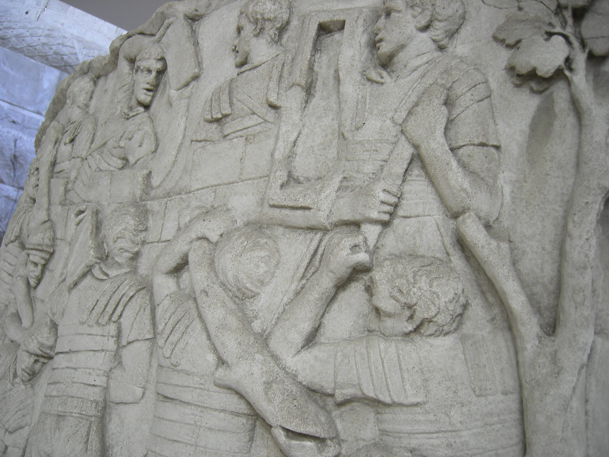 Trajan's soldiers building a fortress. From Trajan's Column; this is from the plaster-cast reproduction at the Museum of Romanian History in Bucharest, Romania